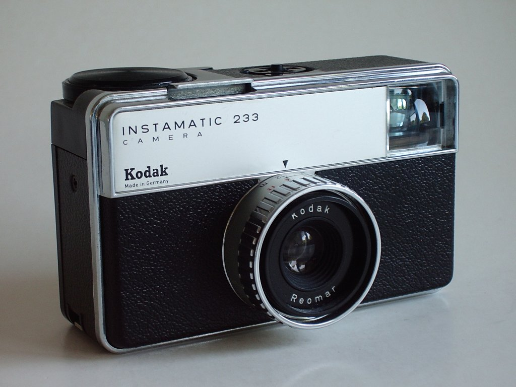 Kodak Instamatic 233 camera for 126 film. Made by Kodak in Germany.